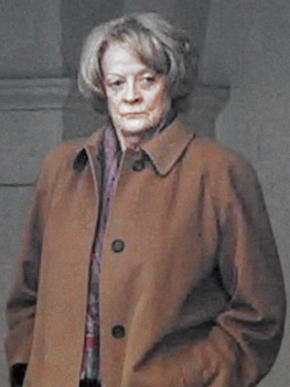 Dame Maggie Smith in Kensington Gardens filming 'Capturing Mary', 7 March 2007. Shot with a long lens from the nearby path in a break between filming. The weather was cold and she appeared to be taking shelter.